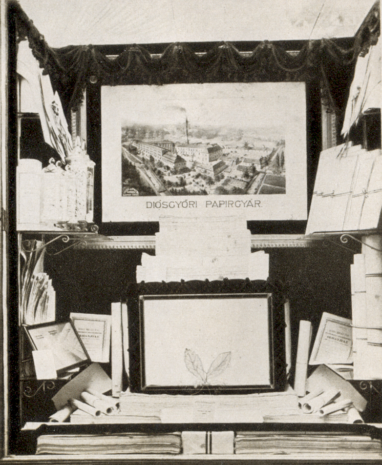 Show details of the Diósgyőr Papermill in the 1900 Paris Exposition